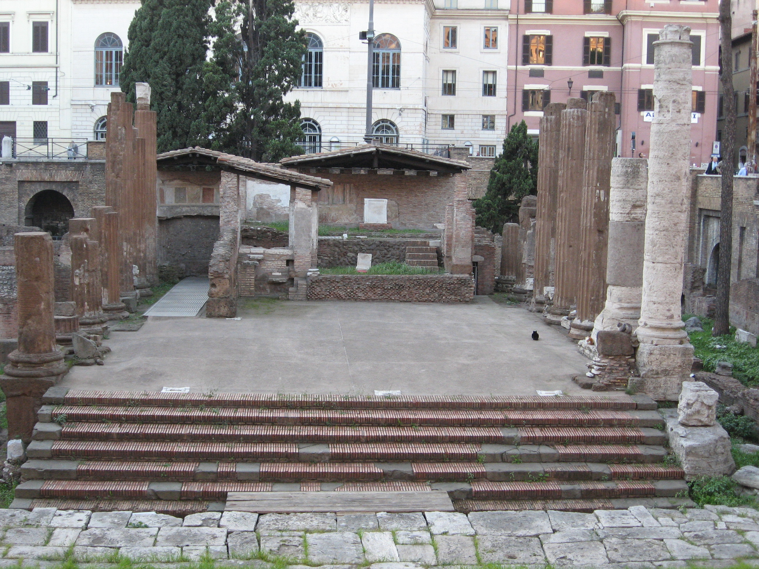 Largo di Torre Argentina, a square in Rome, Italy. Located in the Largo Argentina is the Torre Argentina Cat Sanctuary, a no-kill shelter for homeless cats.